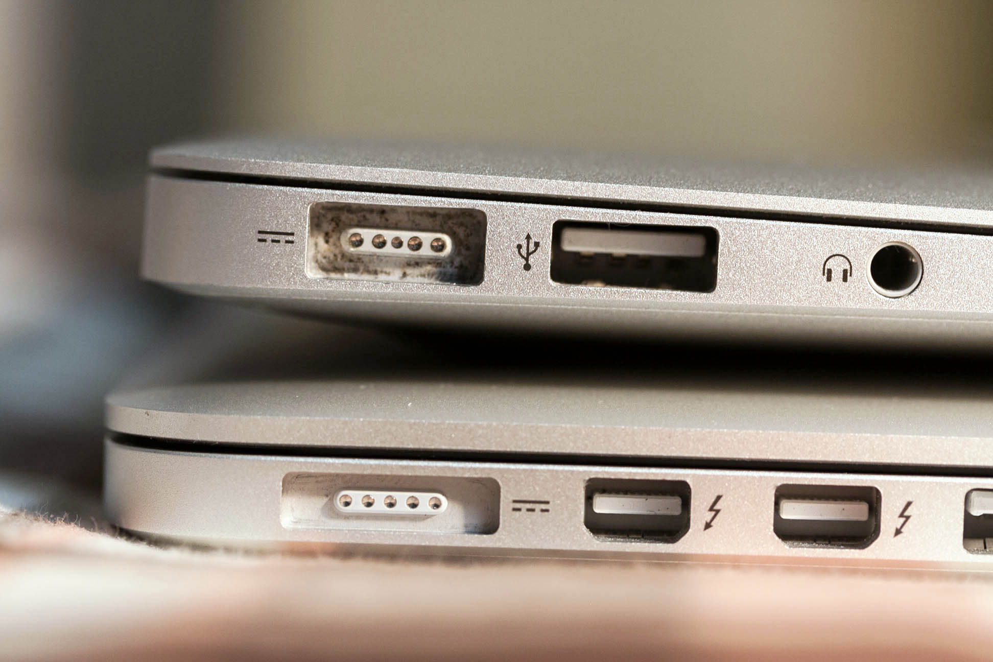 A retina MacBook Pro below a MacBook Air.